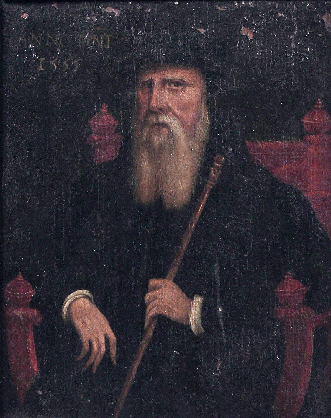 John Russell, 1st Earl of Bedford oil on panel 20.5 x 16cm inscribed u.l.: Anno Dni / 1555